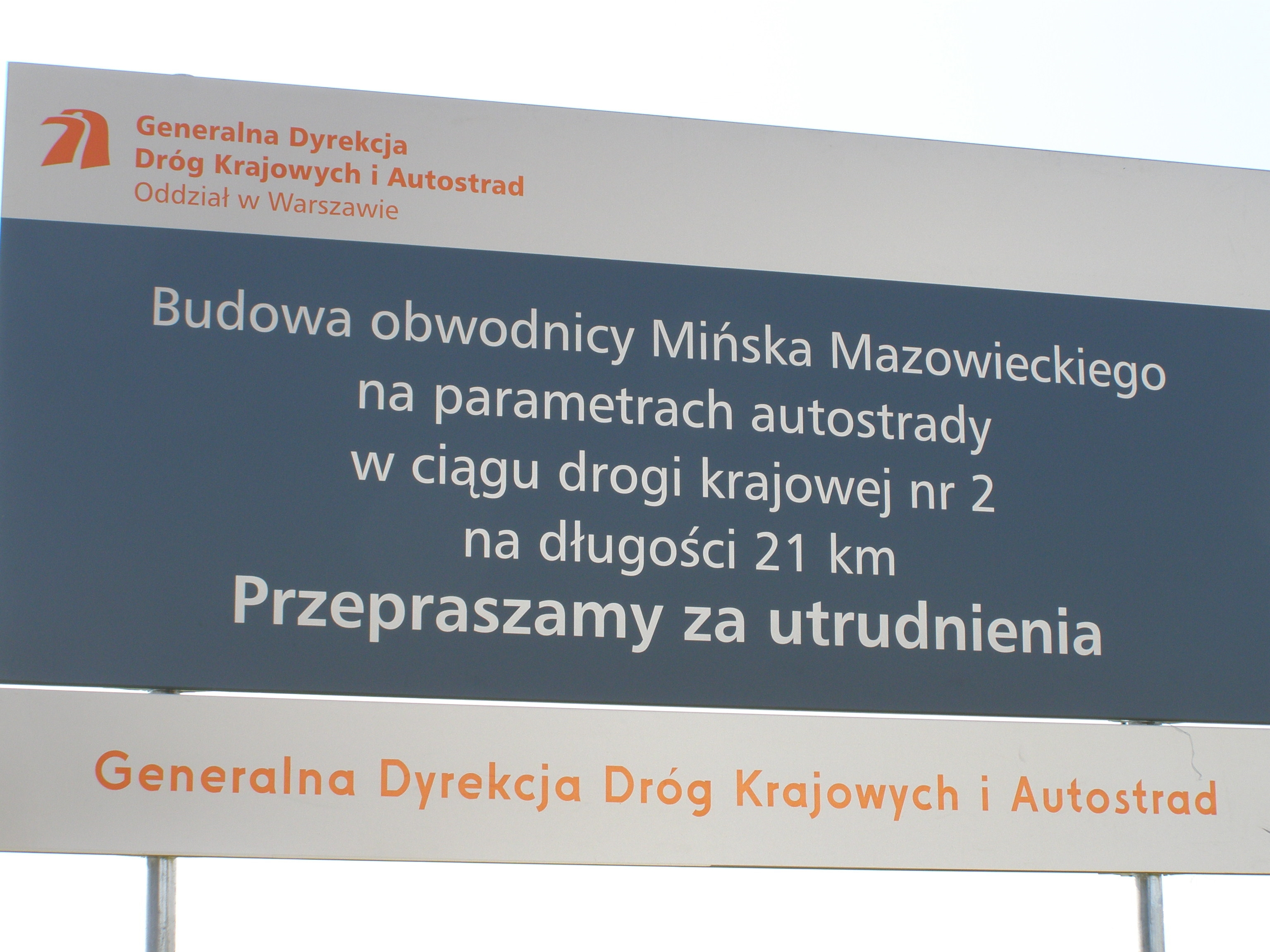 Freeway A2 in Poland. Mińsk County stage.